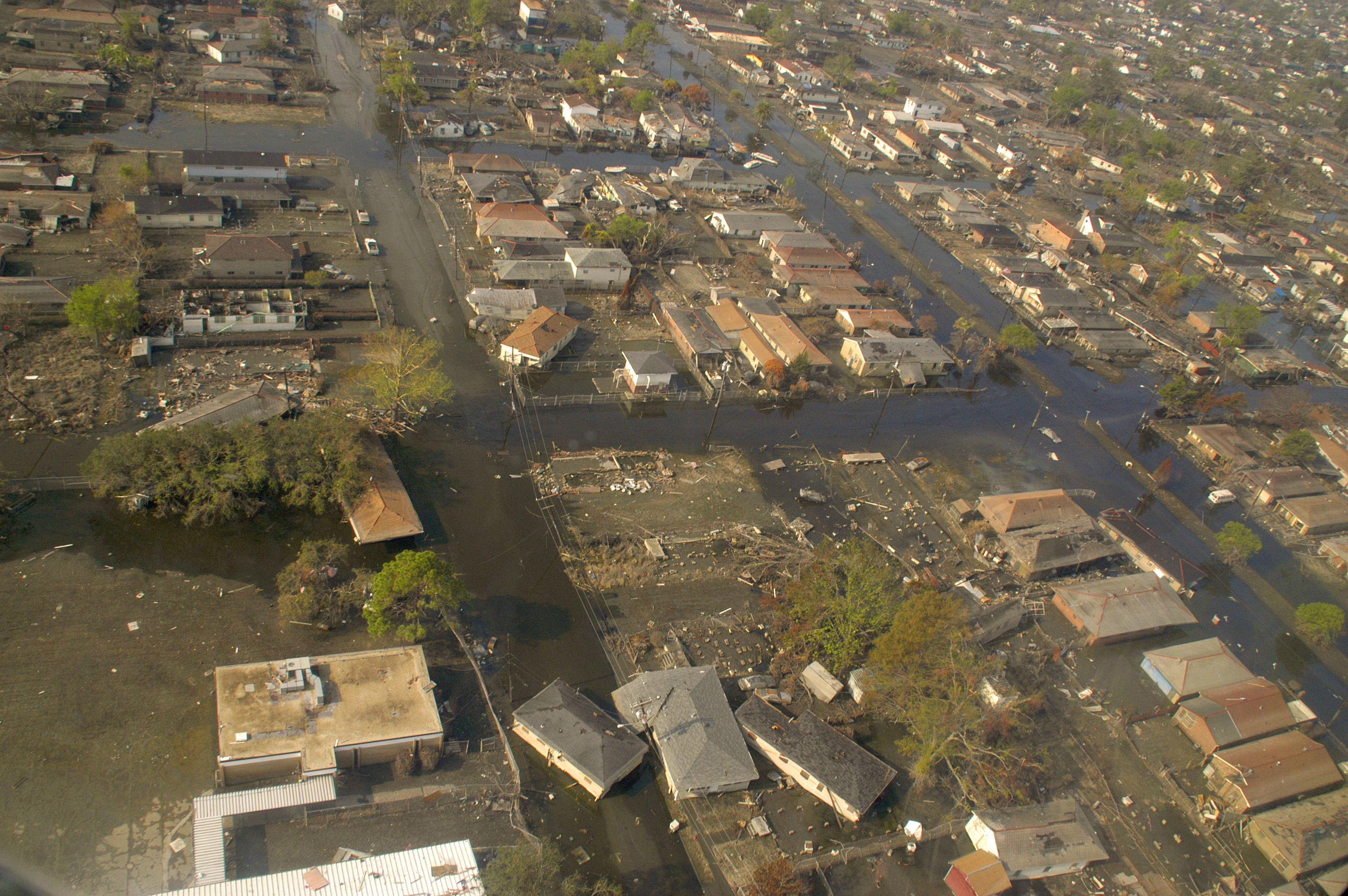 University, New Orleans, LA, 9-16-05 -- This neighborhood remains flooded over two weeks after the storm came through. The foul smelling flood water is contaminated with petrol chemicals, house hold chemicals and biological hazards. MARVIN NAUMAN/FEMA photo